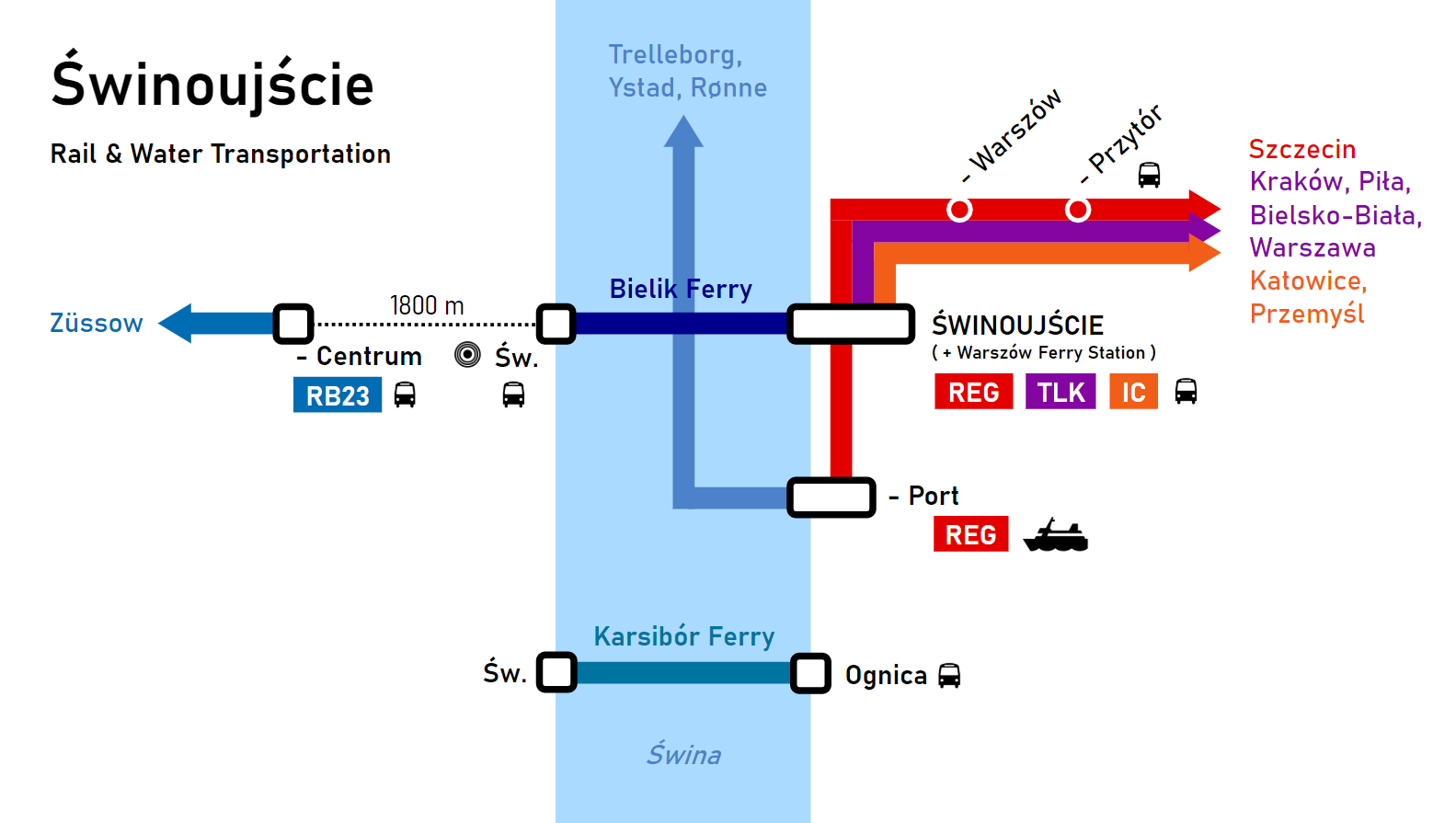 Map showing all rail and water passenger connections in Świnoujście.